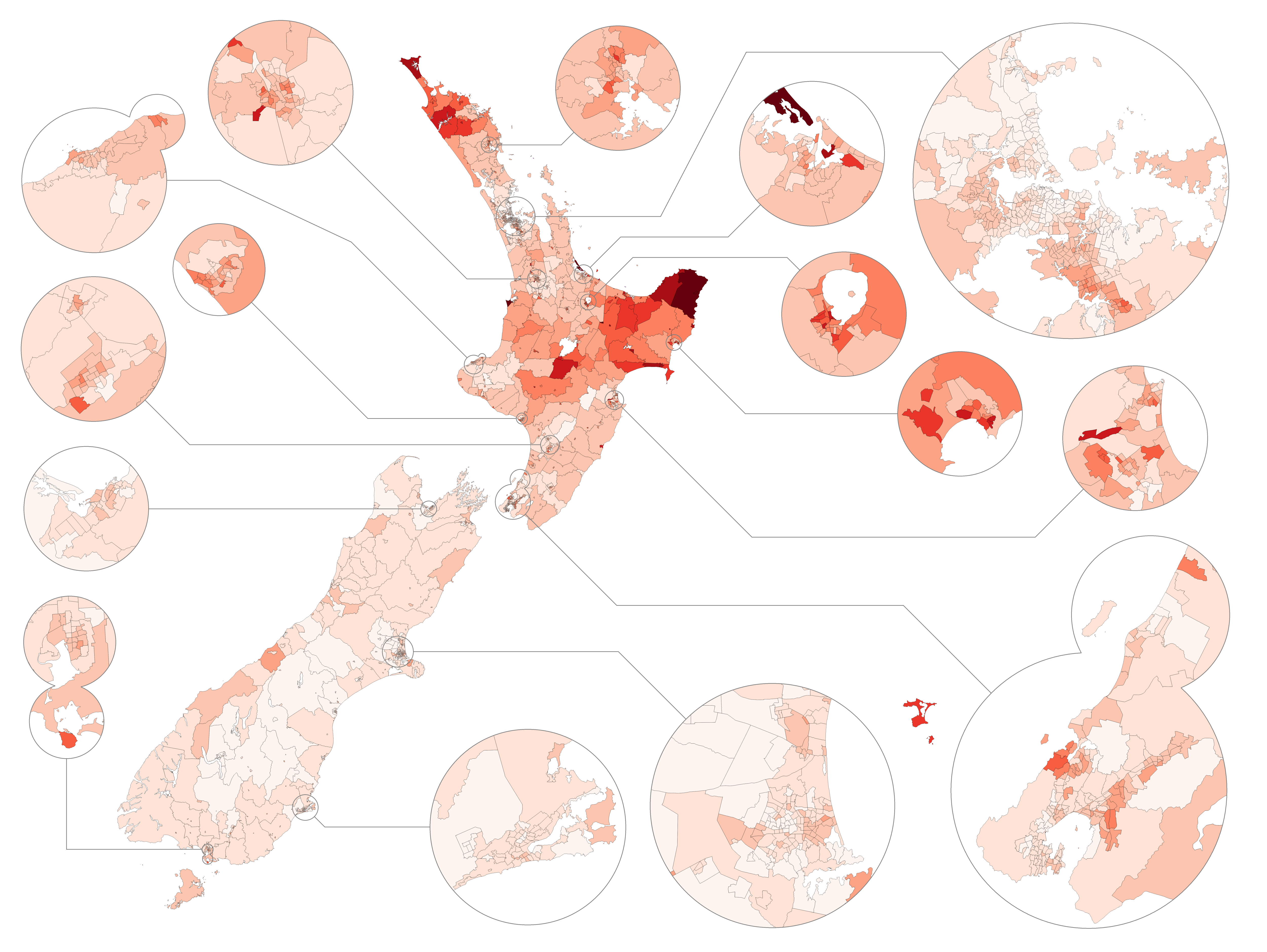 Map showing the percentage of people in each New Zealand census area unit as of 2013 who identified themselves (not necessarily exclusively) with the Māori ethnic group. Data from Statistics NZ; made partly using QGIS. Less than 5% More than 5% More than 10% More than 20% More than 30% More than 40% More than 50% More than 60% More than 70% More than 80%